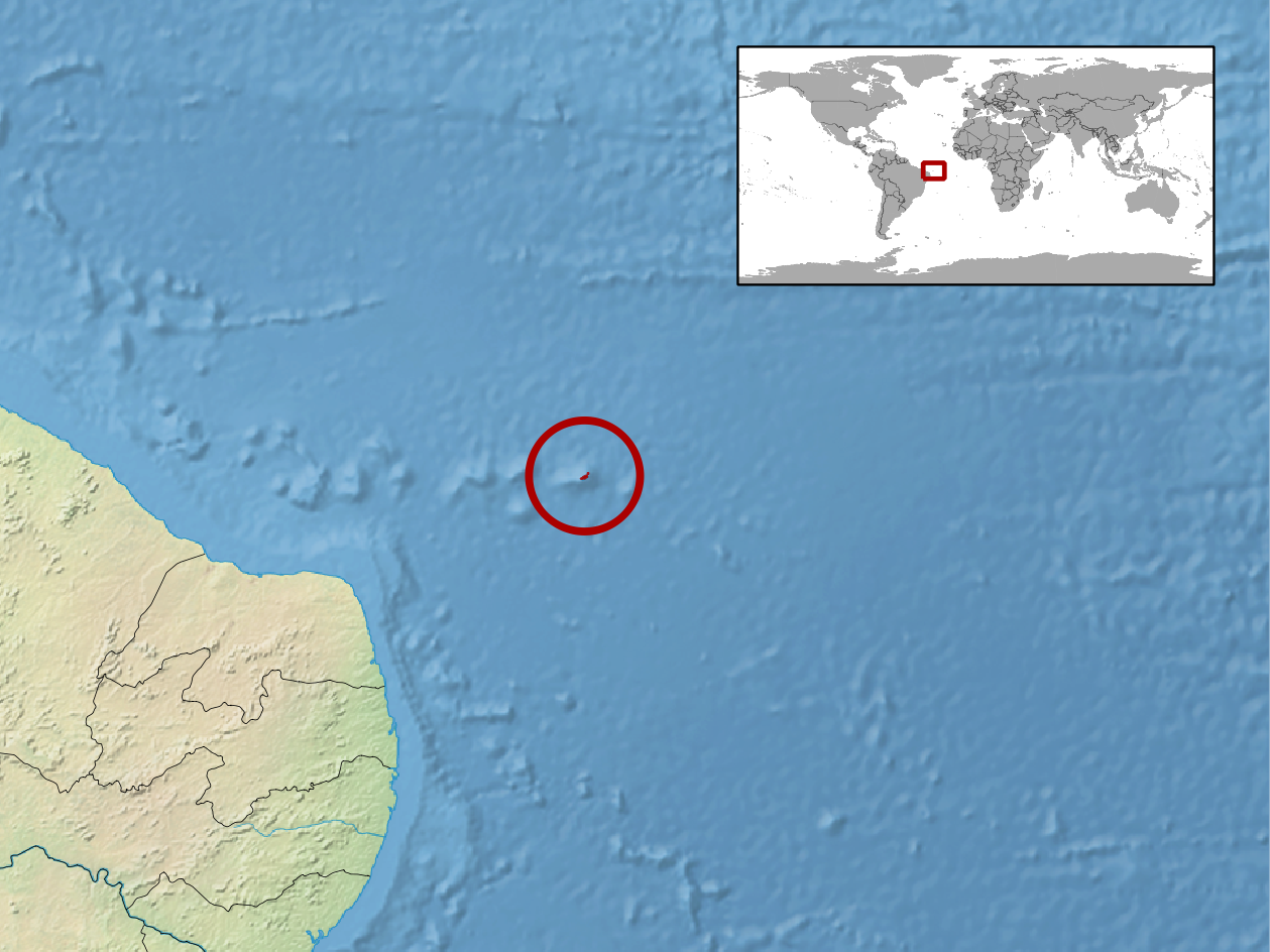 geographic distribution of Amphisbaena ridleyi (Native: Brazil (Fernando de Noronha))